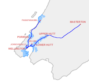 Map of Wellington's rail network. Made by uploader for Wikipedia. 20:18, 3 August 2005 Vardion 374x350 (26,918 bytes) (moving Porirua dot slightly, removing odd blob) 08:32, 3 August 2005 Vardion 374x350 (26,982 bytes) (Map of :en:Wellington 's rail network. Made by uploader for Wikipedia. GFDL )